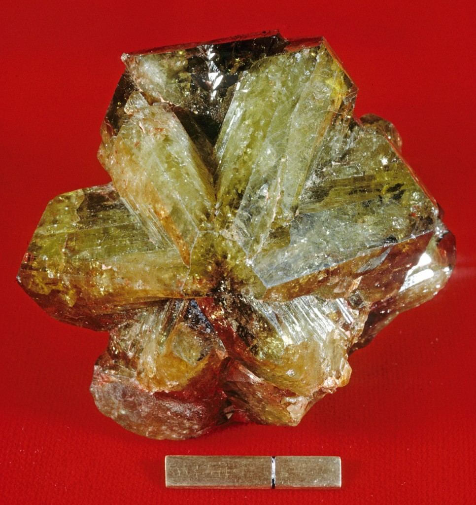 Chrysoberyl Locality: Colatina, Espírito Santo, Brazil Chrysoberyl sixling twin. Perhaps the best know example. Arthur Montgomery Collection. (Collintina was spelling of the place name on his label). Scale at bottom of image is an inch with a rule at one cm.